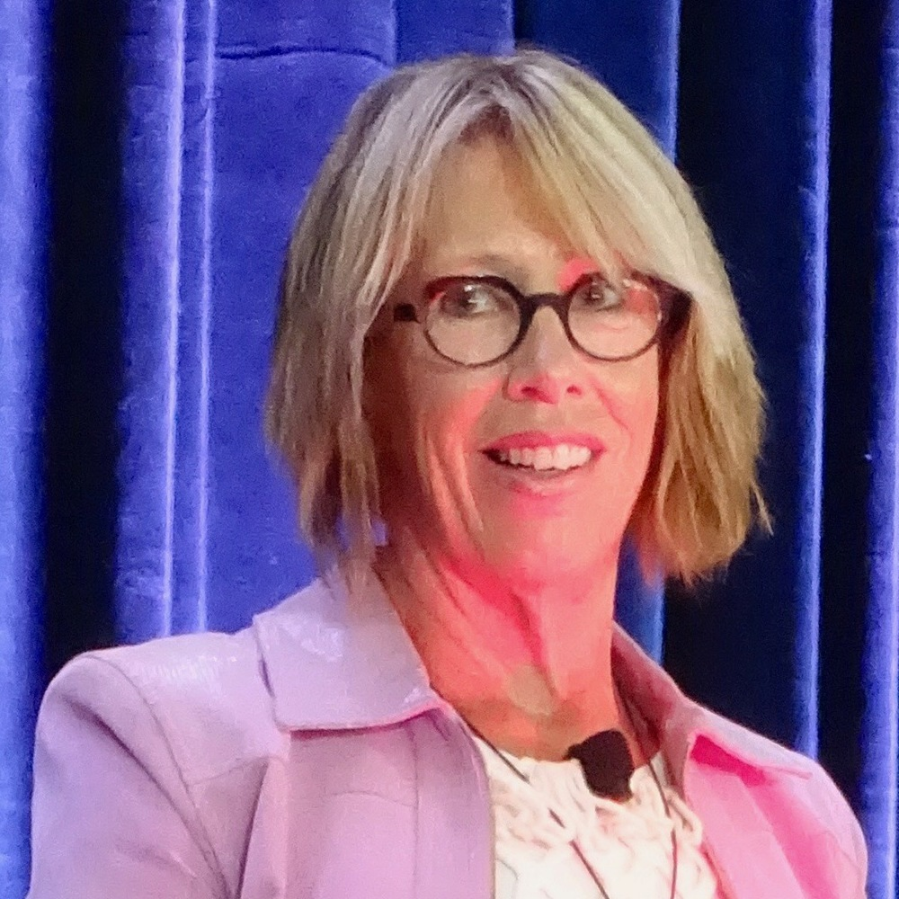 a fun weekend “brain spa” — the BrainMind Symposium at Stanford (and here are my notes on the talks): If you spend 10-100 hours in an fMRI, we can read your thoughts. 2/3 of humanity lacks access to medical imaging. She wants to reduce the cost 200x and fit it into a ski cap. Tumor has 5x the blood of normal tissue. And Blood is relatively opaque (versus flesh). Bones are white, and near IR passes through. We can image to 2 microns, the diameter of the smallest neuron. Use laser and sound wave that shifts the wavelength ever so slightly. Her TED Talk came out recently.